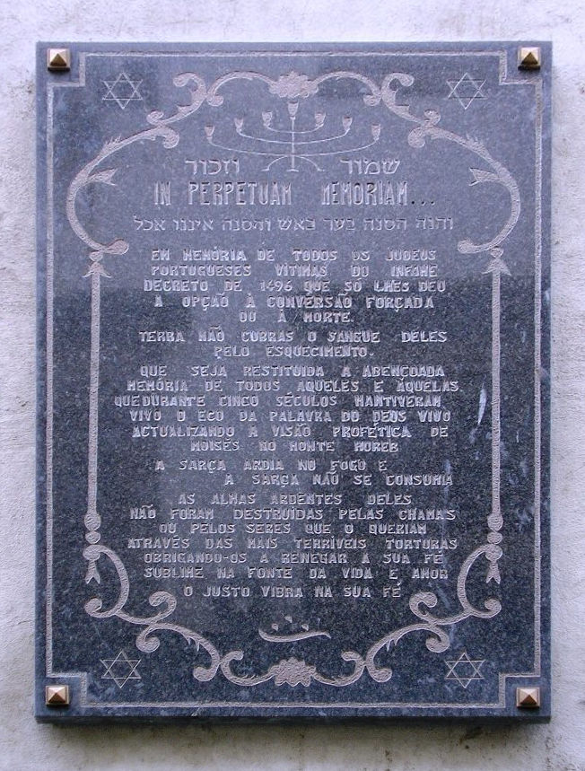 In memoriam of the expulsion of the Jews from Porto city, Portugal. Under the royal decree by the king Manuel I of Portugal 1496, all Jews should covert to Catholicism or be expelled from Portugal and colonies. Many flew to the Netherlands and Dutch colonies.